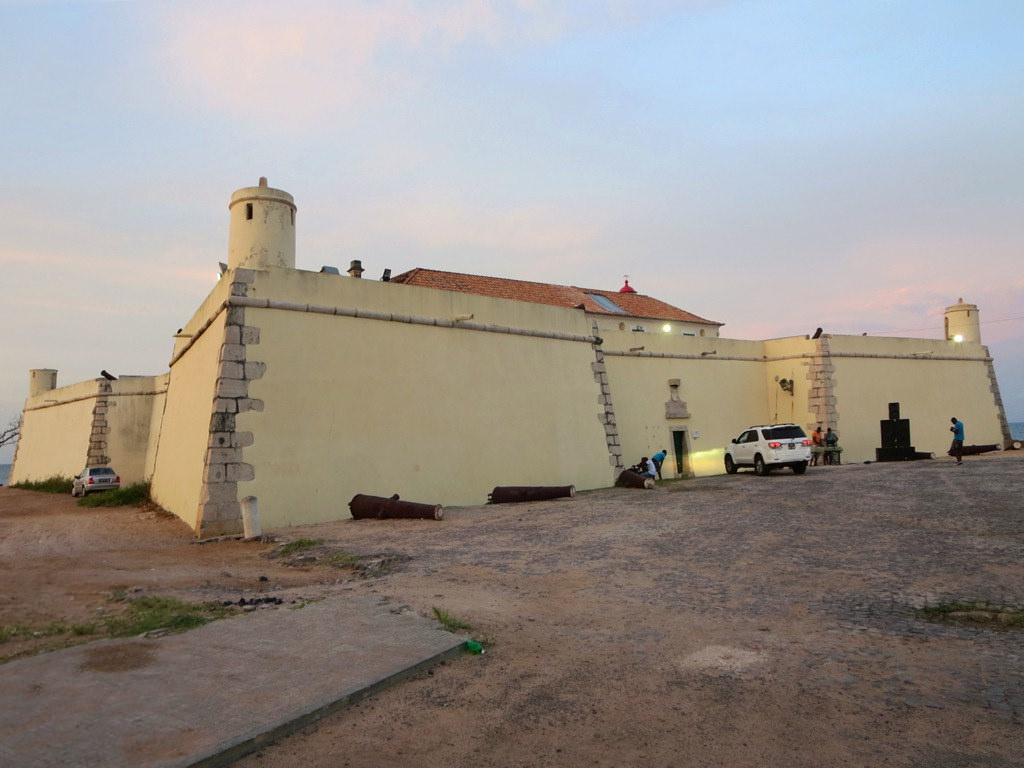 The Sao Tome National Museum is housed in the Forte de Sao Sebastiao (1575) in Sao Tome, São Tomé and Príncipe.